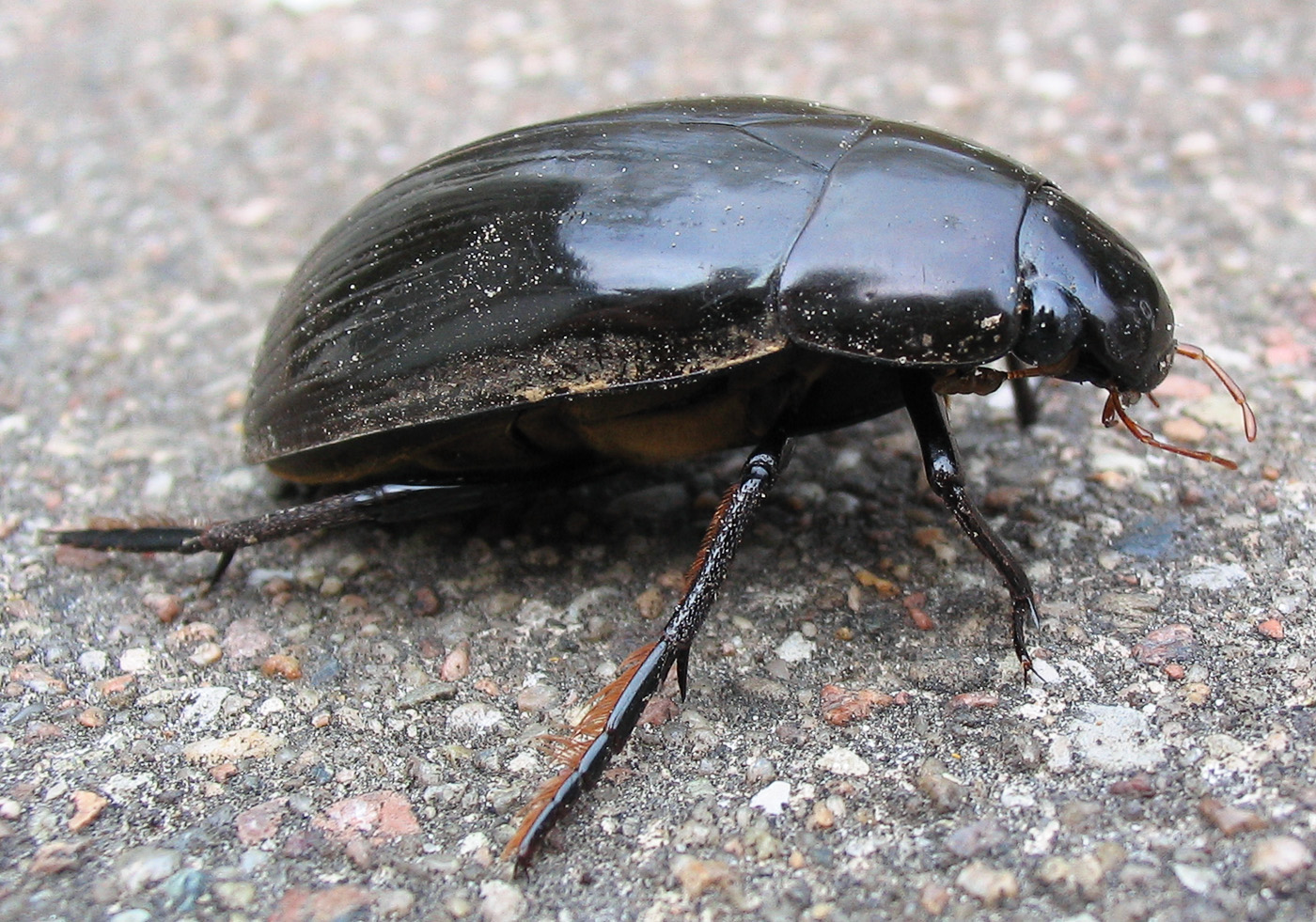 An adult Hydrophilus piceus